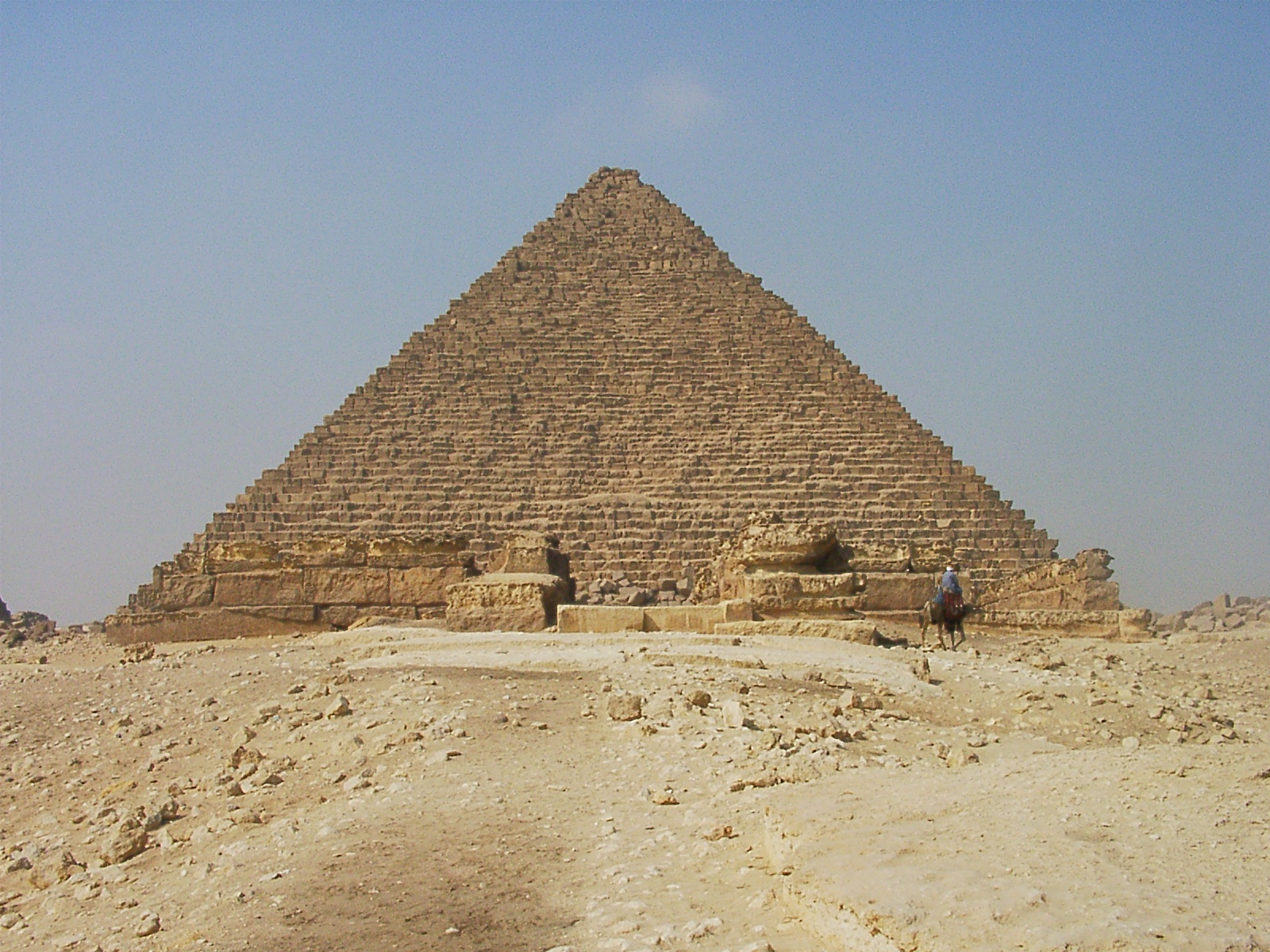 Menkaura's causeway and remains of his mortuary temple